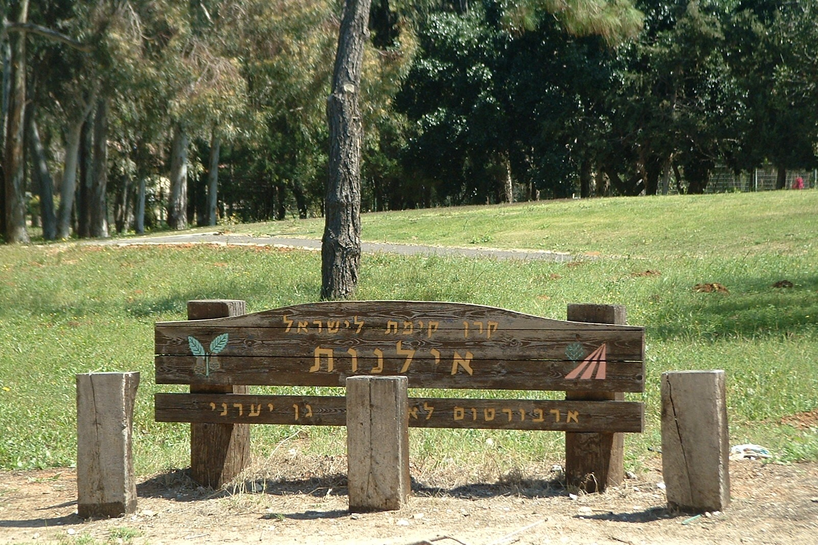 The sign at the entrance to the Ilanot National Arboretum, Israel.